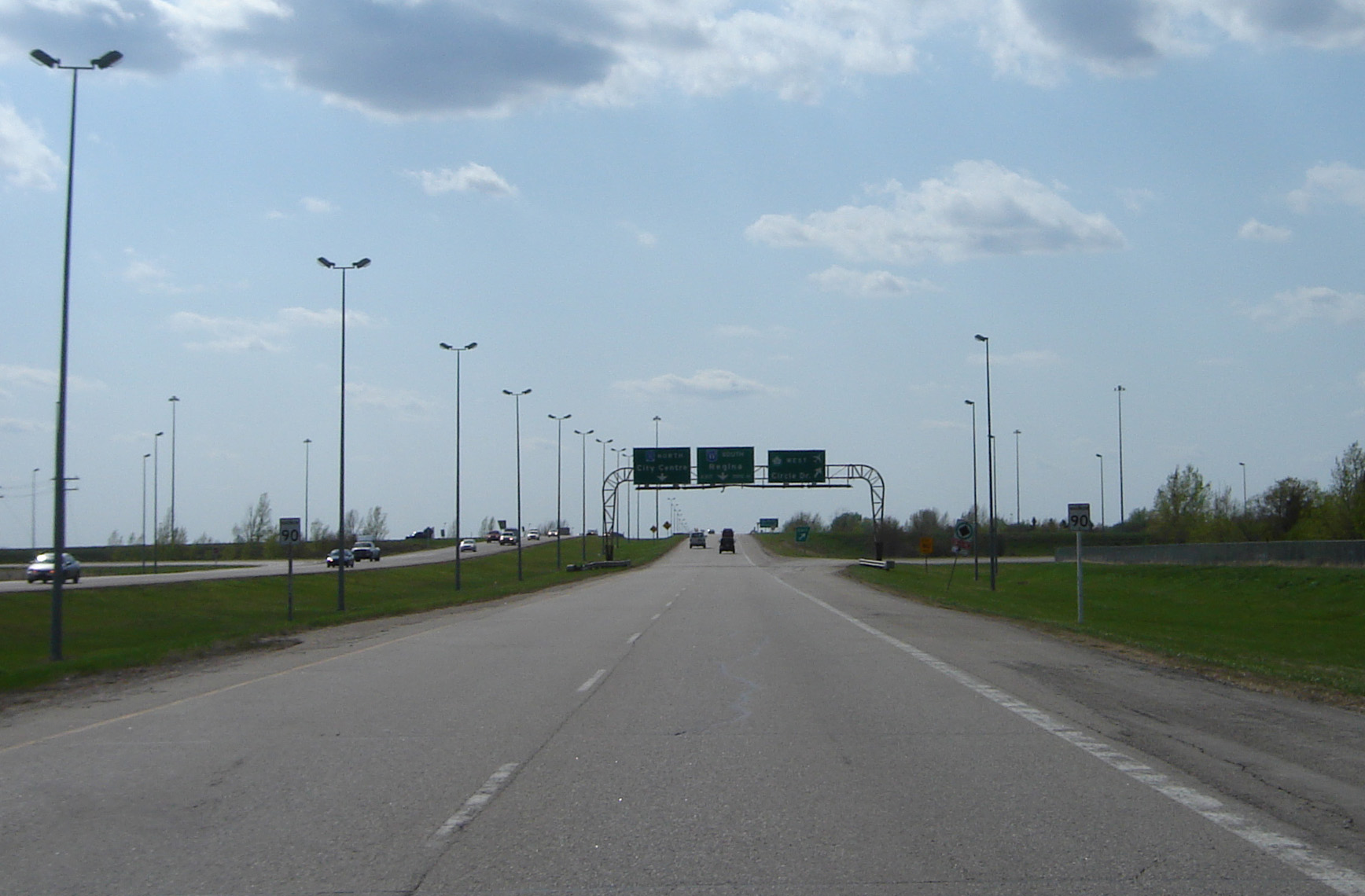 Circle Drive Directional road sign and speed limit sign located at Saskatchewan Highway 16 or Yellowhead Highway in Saskatoon